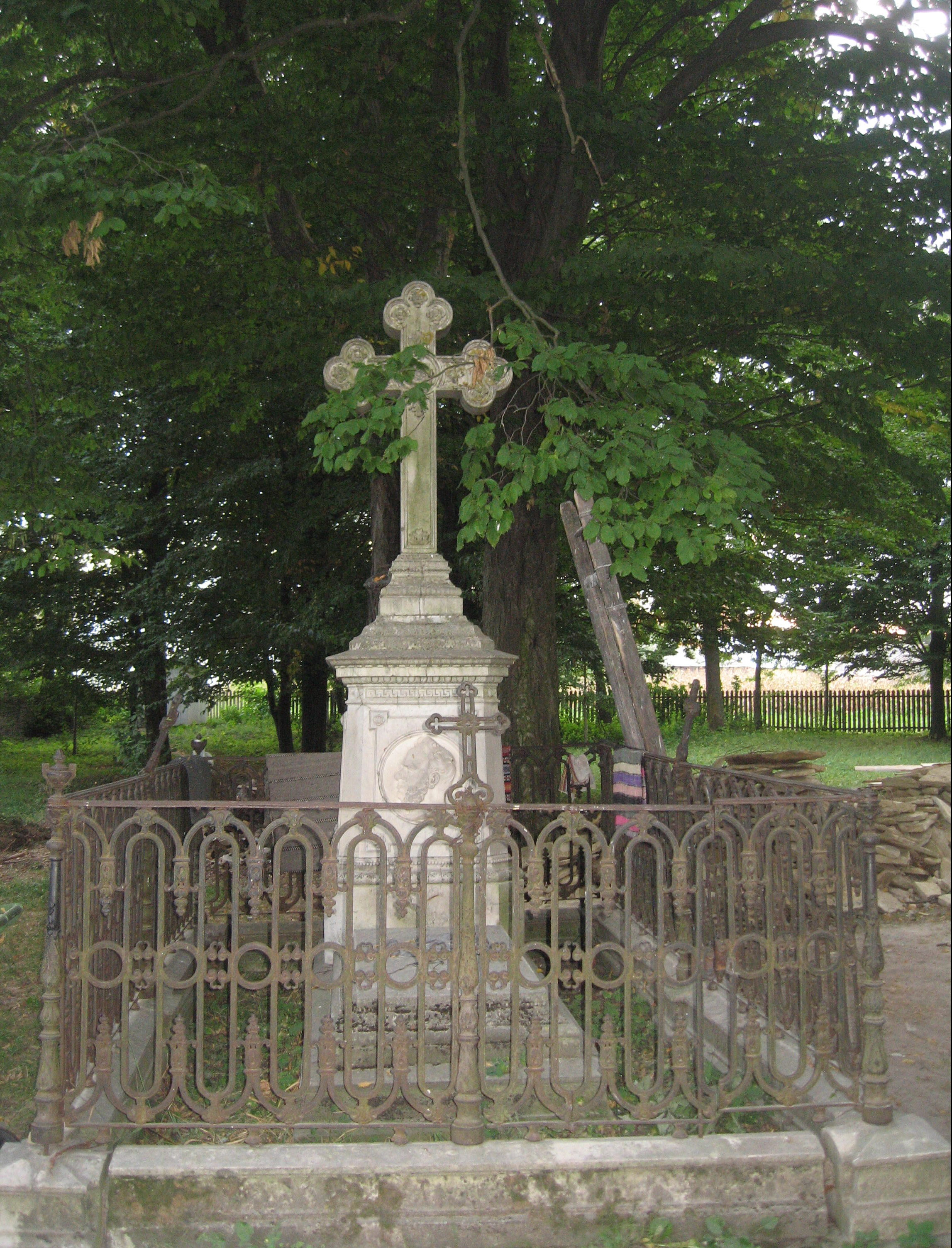 Biserica Adormirea Maicii Domnului din Zvoriștea